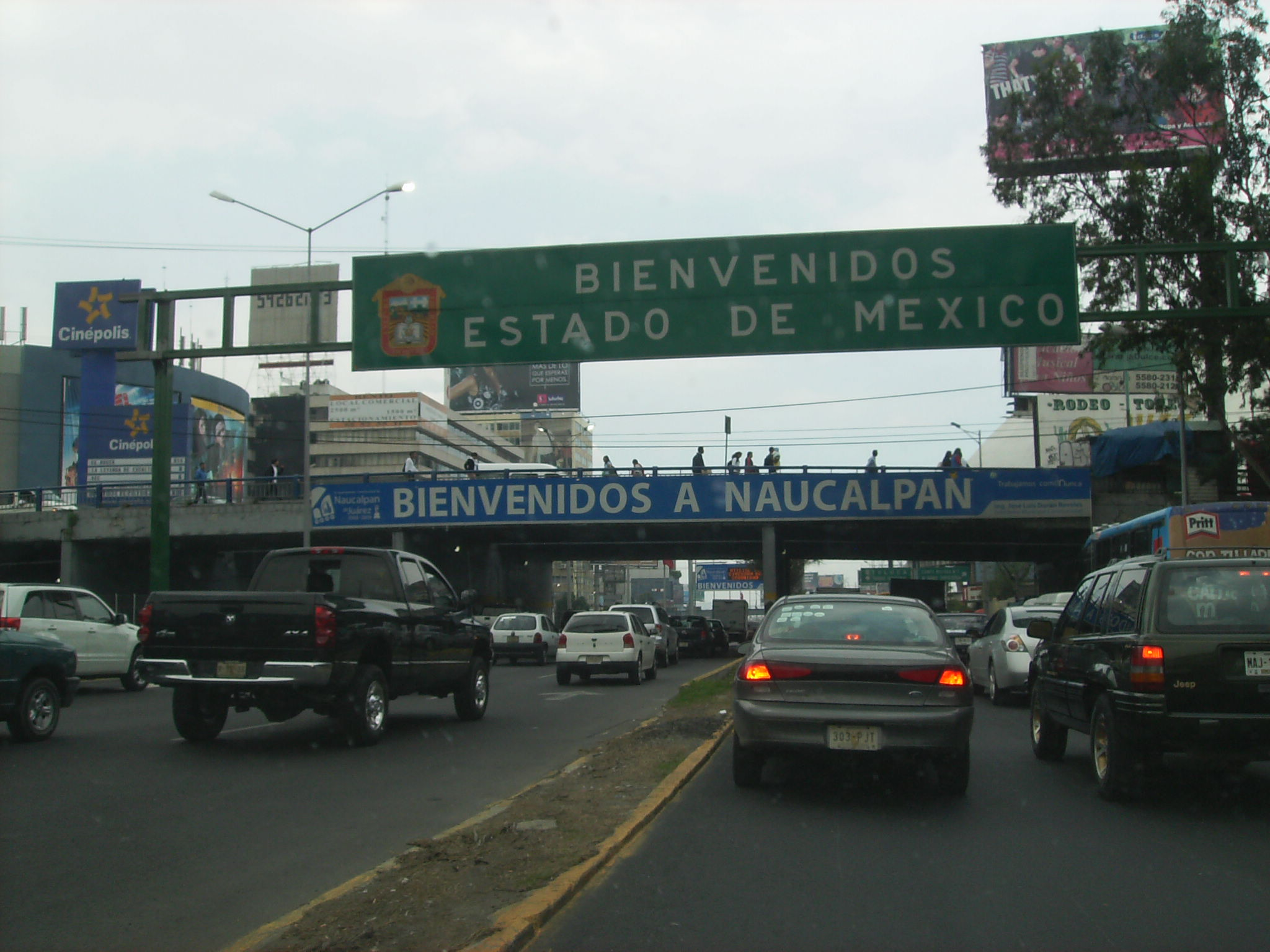 Periférico Norte avenue in Naucalpan, México.